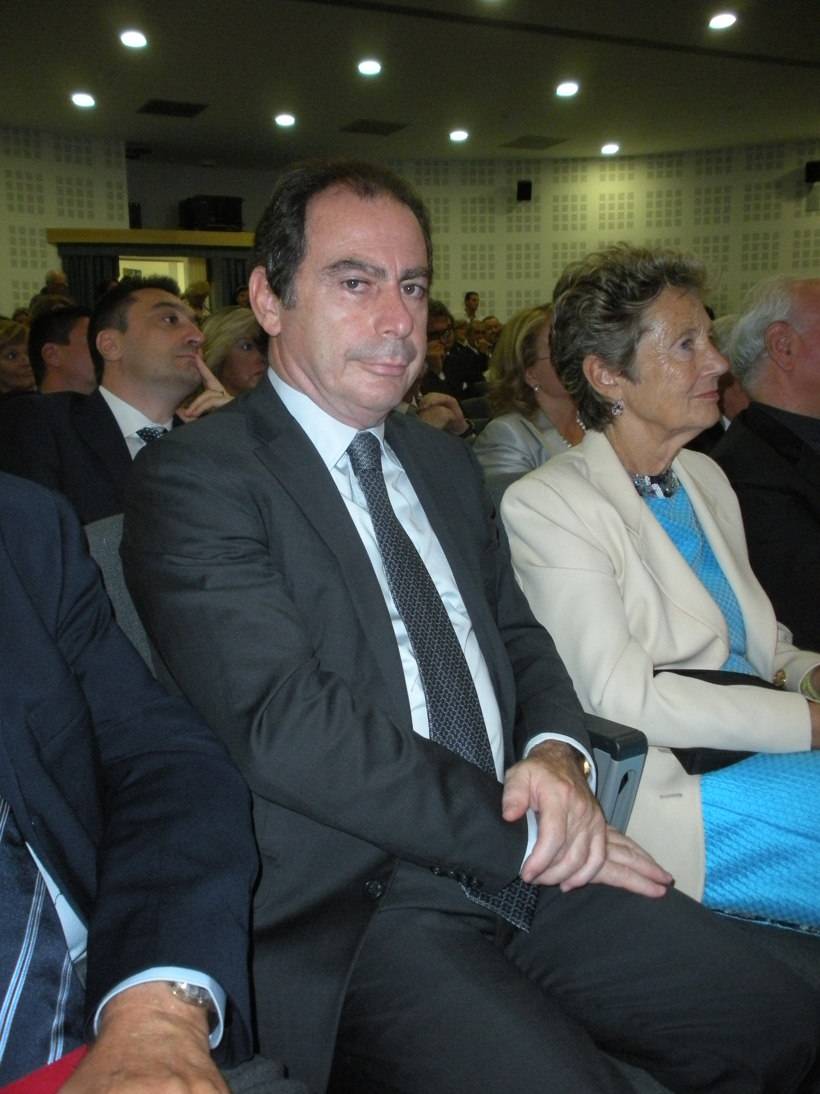 Giampiero Catone, Italian politician.